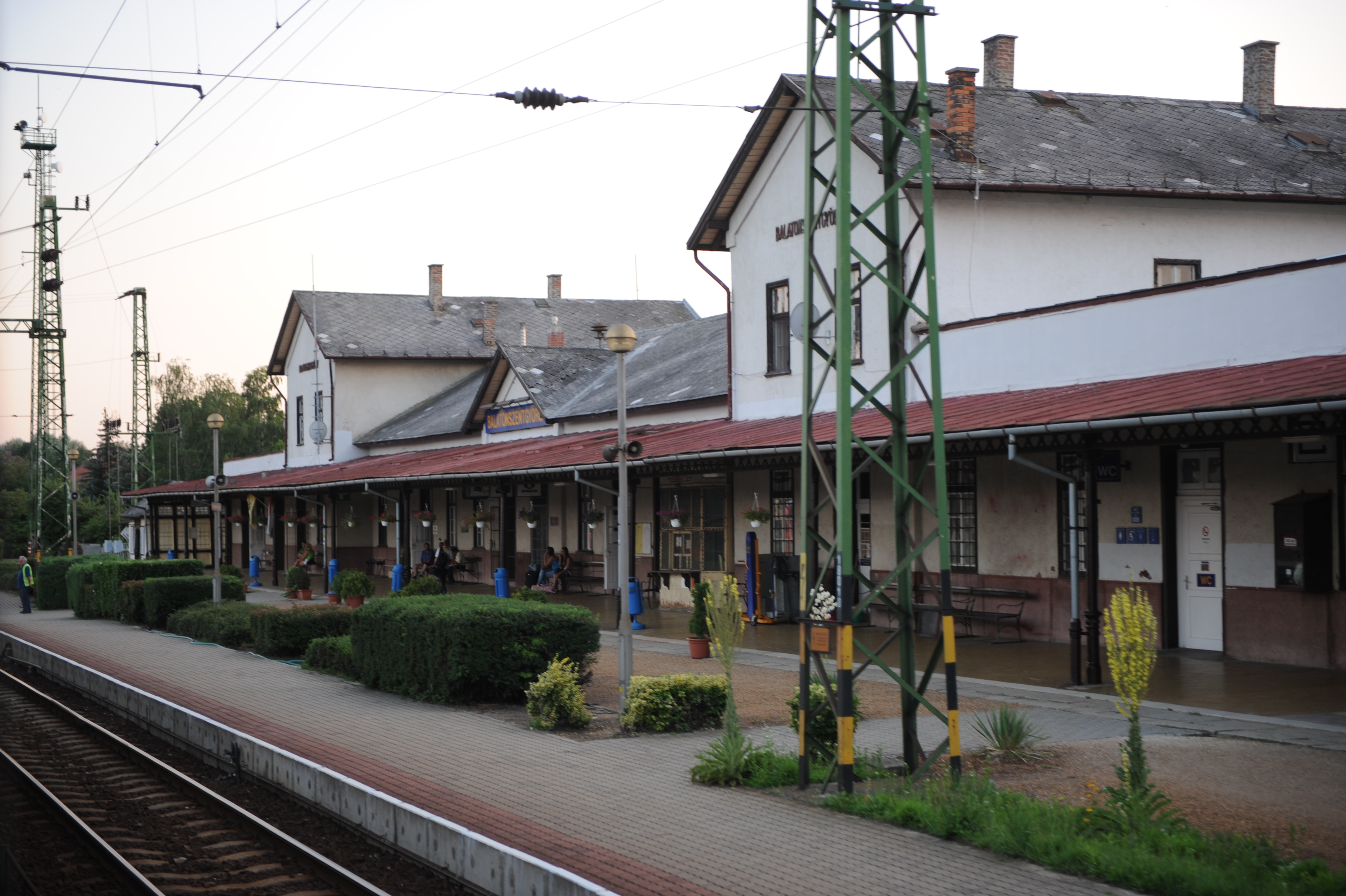 Balatonszentgyörgy railway station